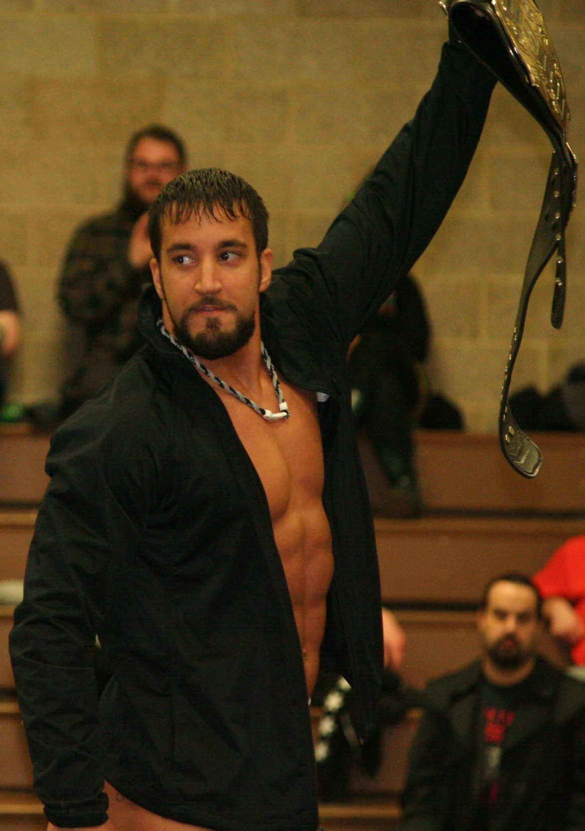 Professional wrestler Anthony Nese during the National Pro Wrestling Day event.